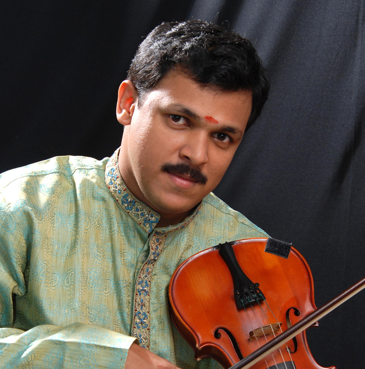 Avaneeswaram S R Vinu